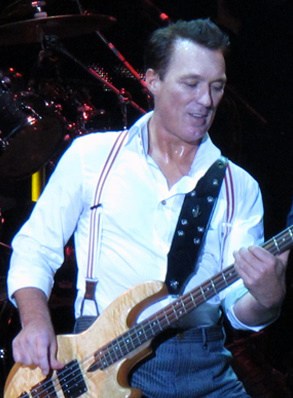 Martin Kemp of Spandau Ballet, Liverpool, October 2009